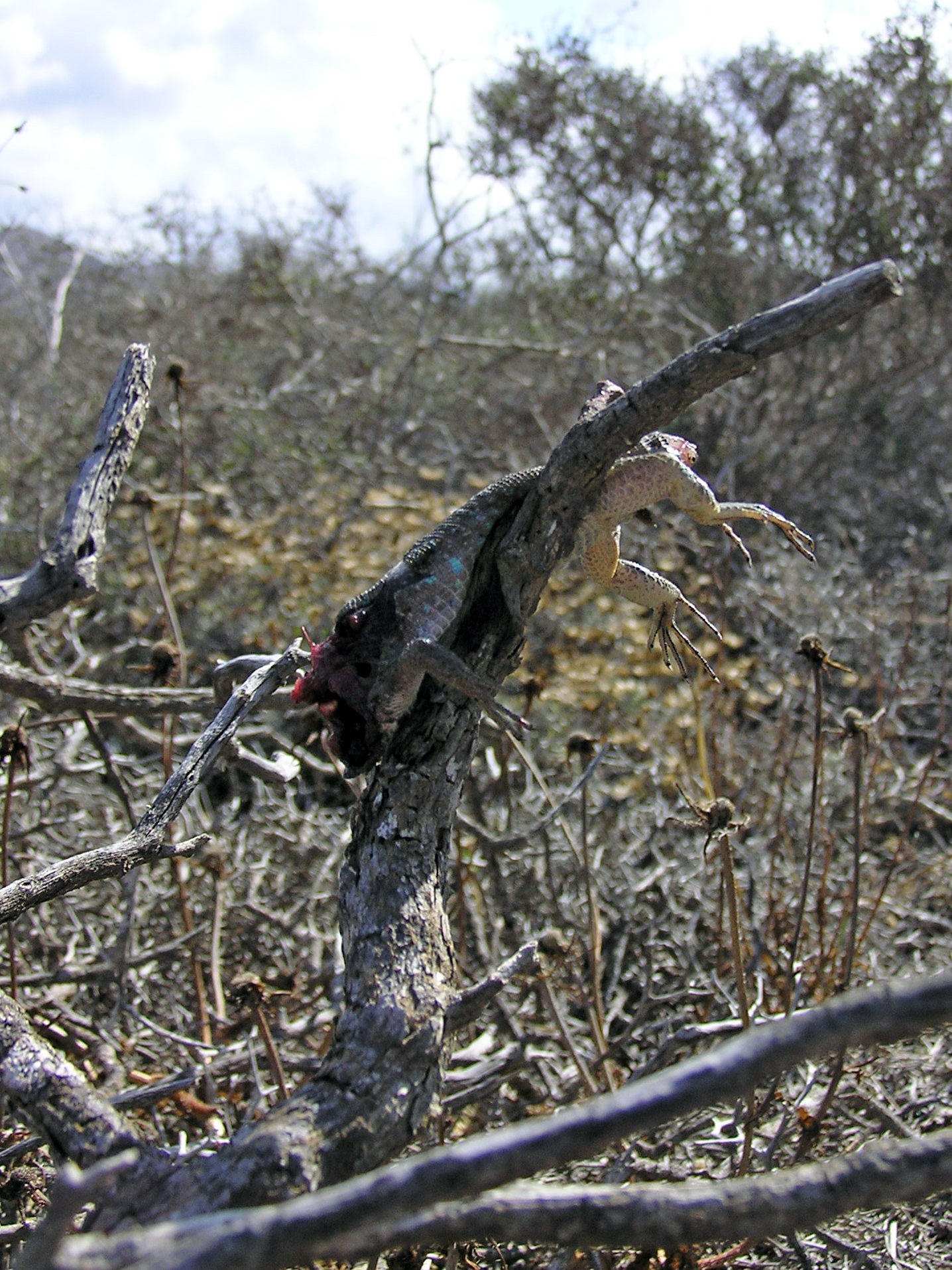 A lizard impaled on a branch by a Southern Shrike, in the La Geria region of Lanzarote. Photo by Yummifruitbat